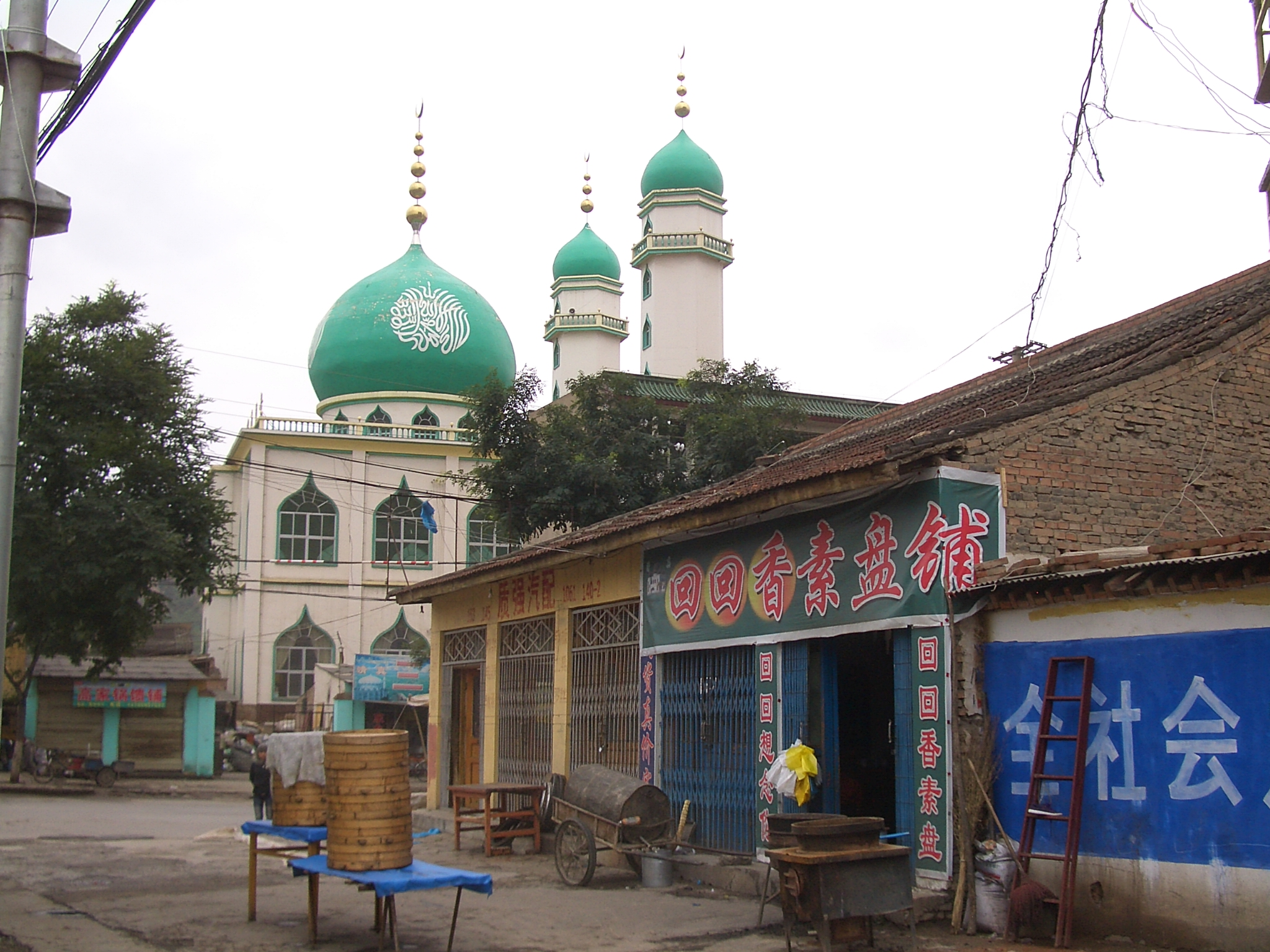 Xidaotang Machang Mosque and a Hui vegetarian restaurant at the corner of Hongyuan Xin Cun Lu (Hongyuan Park Village West St.) and Huancheng Xi Lu (City Ring Road West) in Linxia City, NW of downtown